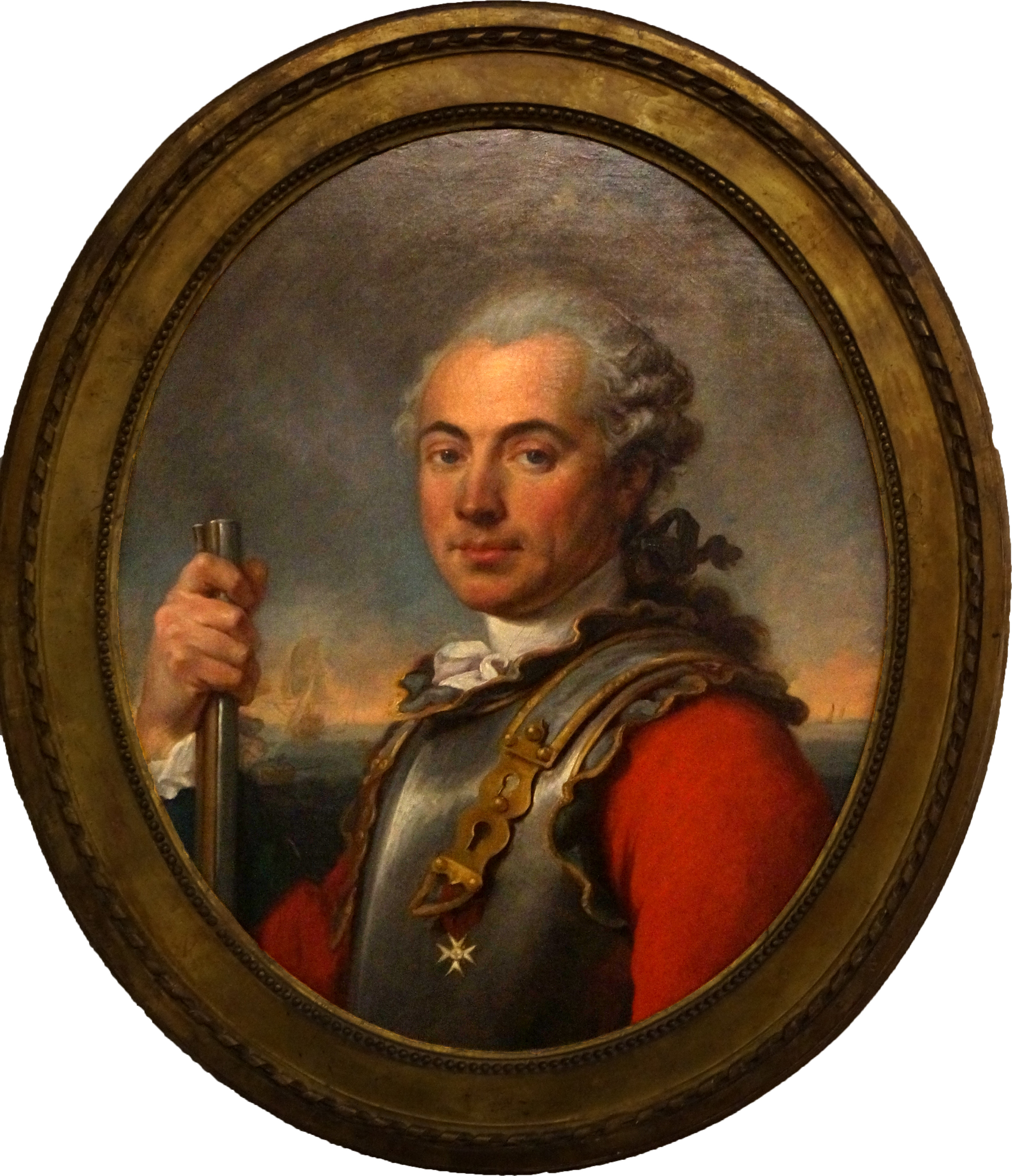 Portrait of Edmond-Antoine-François de Sadouvilliers de Billaud (1705-1780)